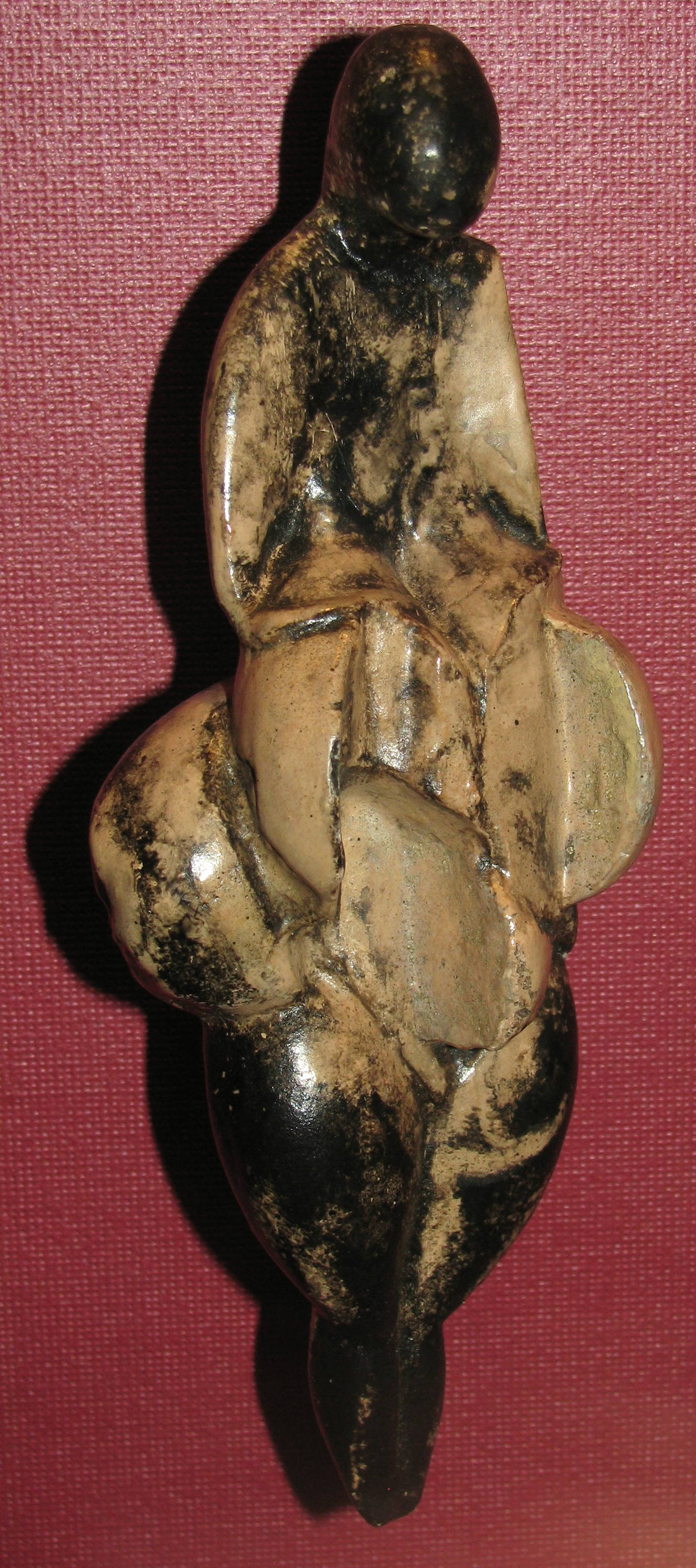 Venus of Lespugue Source: Copy of the Naturhistorischen Museum in Vienna